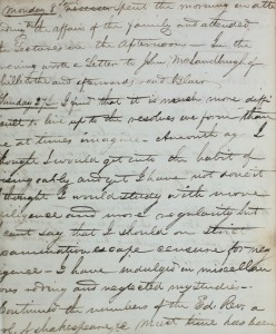 John Hough James Diary Page used with permission from Elizabeth Brice Assistant Dean for Technical Services & Head, Special Collections and Archives Miami University Libraries